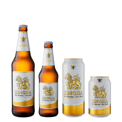 Singha Bottles & Cans